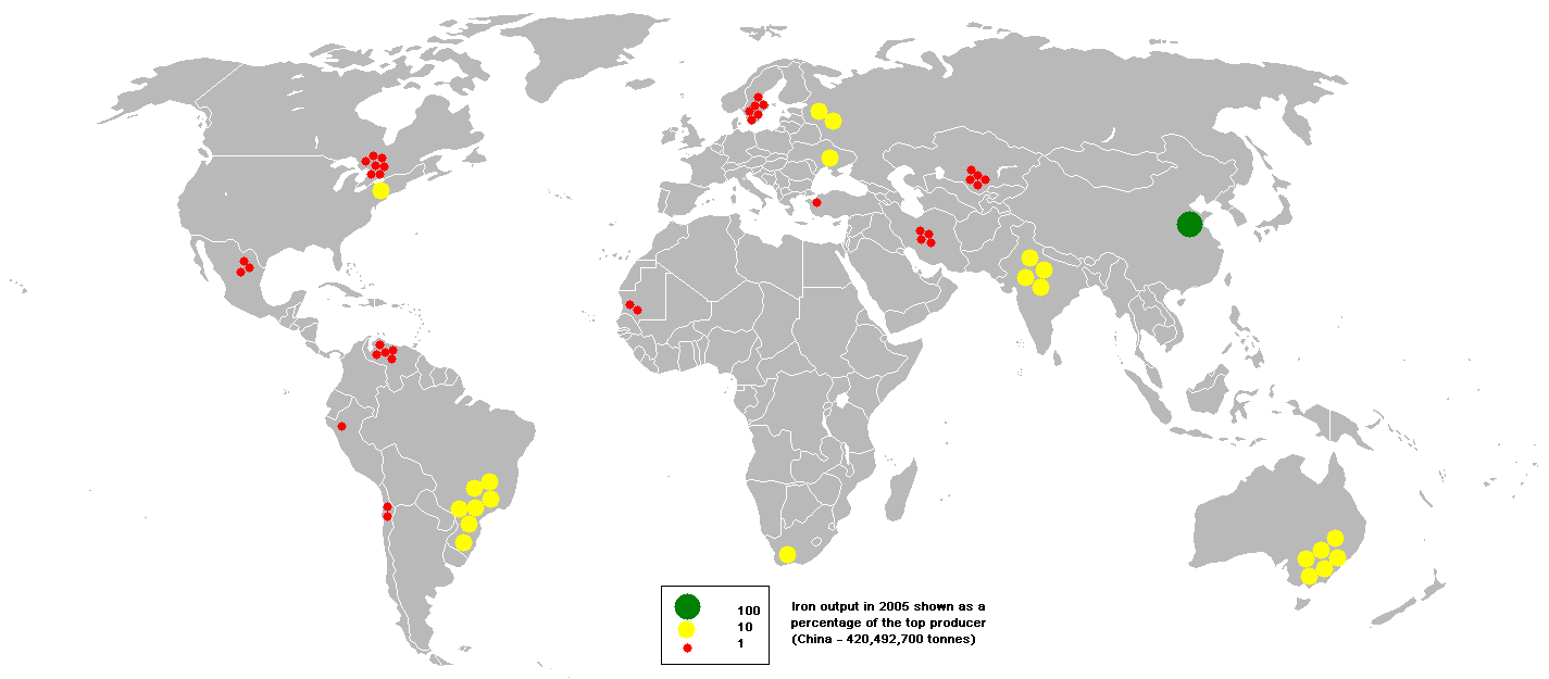 This bubble map shows the global distribution of iron output in 2005 as a percentage of the top producer (China - 420,492,700 tonnes). This map is consistent with incomplete set of data too as long as the top producer is known. It resolves the accessibility issues faced by colour-coded maps that may not be properly rendered in old computer screens. Data was extracted on 2nd June 2007. Source - Based on :Image:BlankMap-World.png